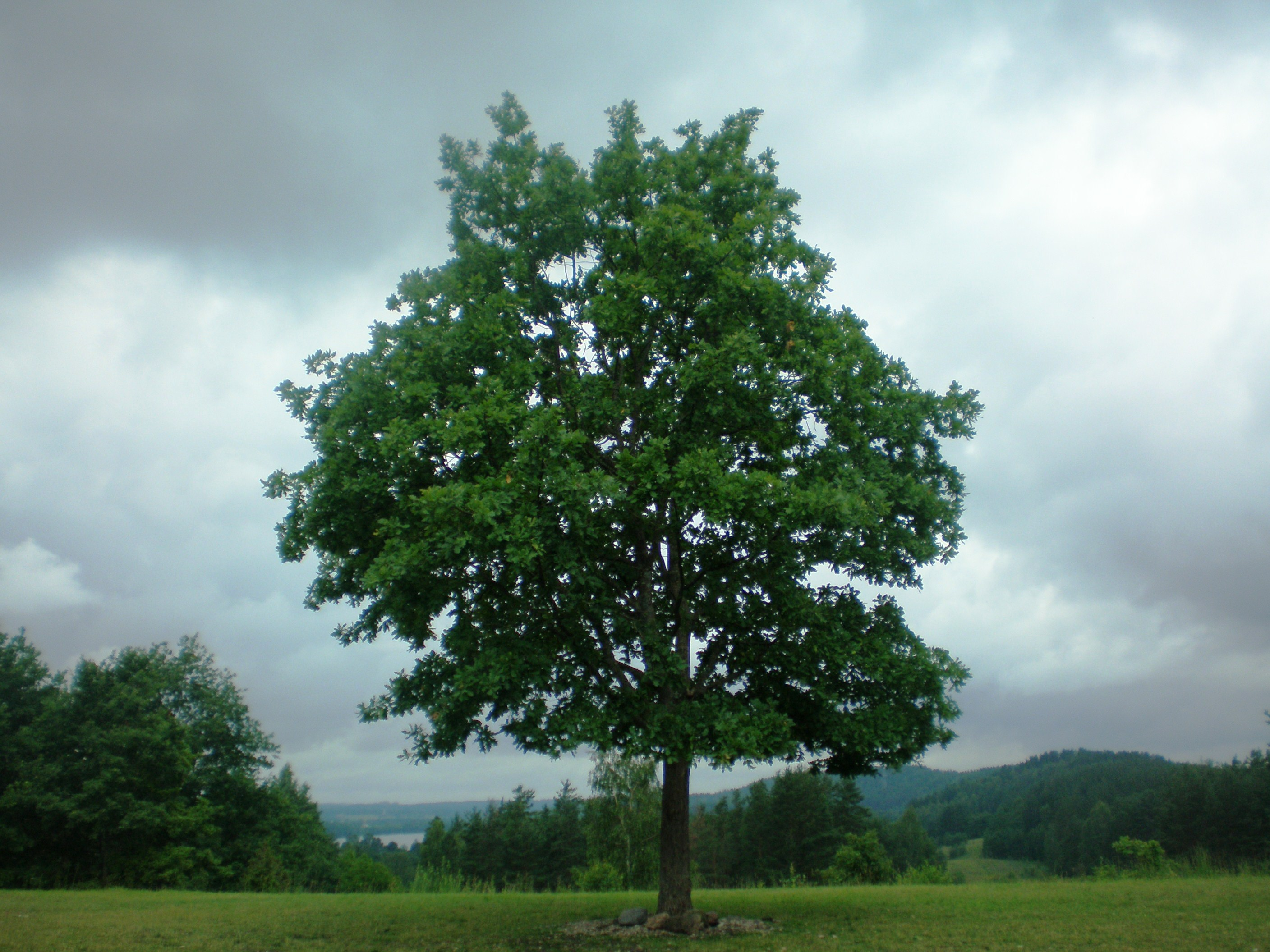 Oak tree on the top of Ladakalnis